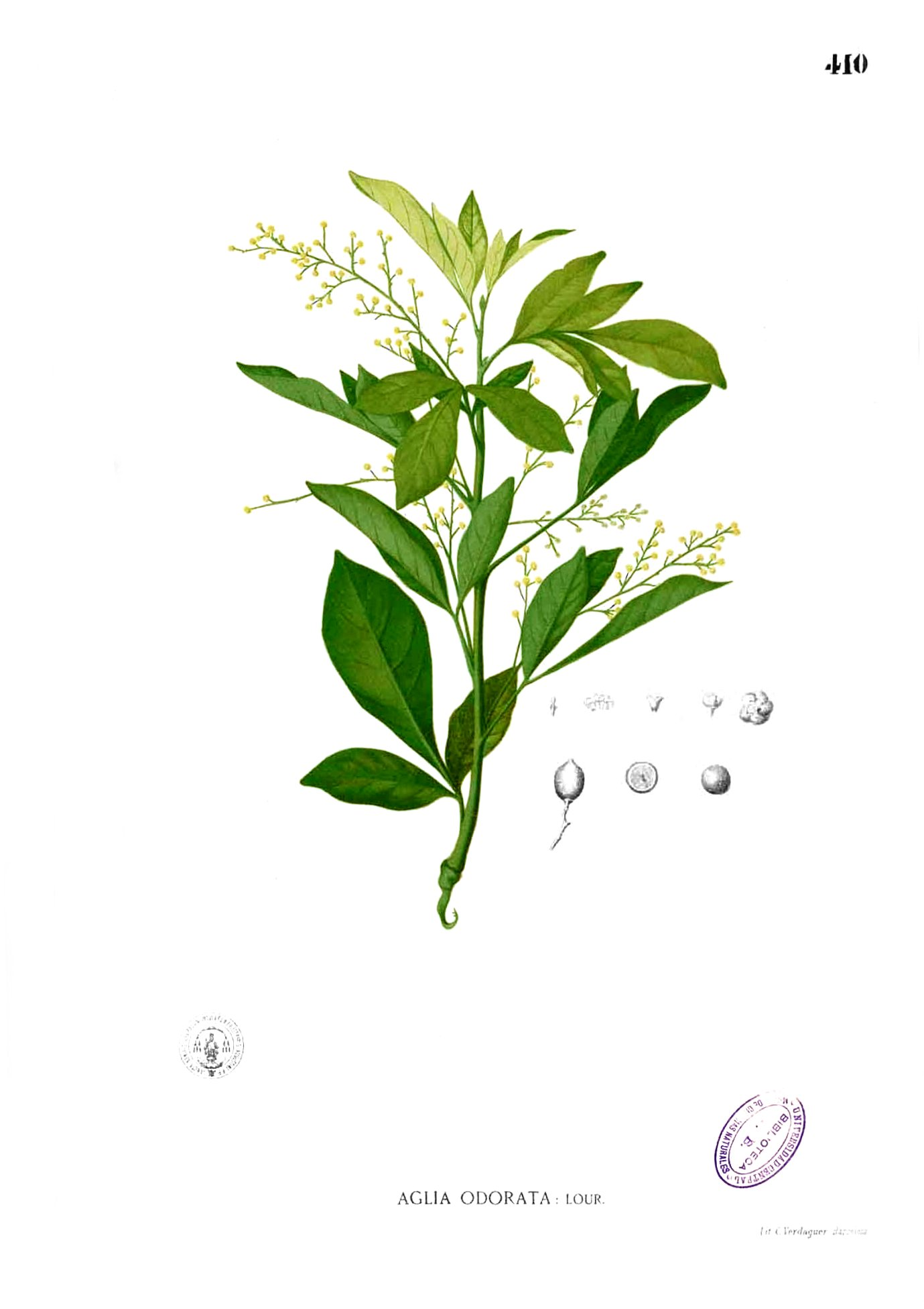 Aglaia odorata, Plate from book